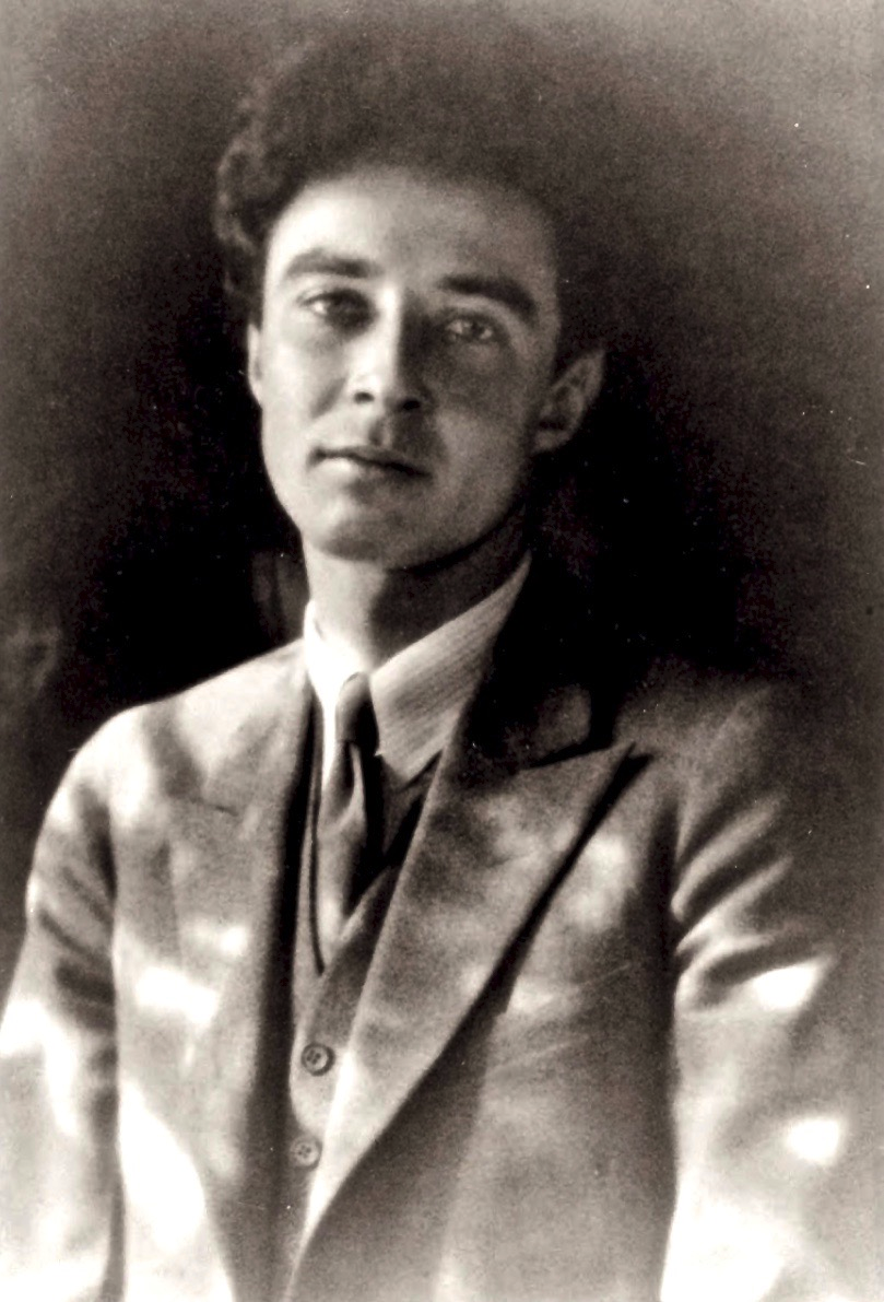 Robert Oppenheimer (1904–1967) as Ph.D. student in Göttingen, Germany